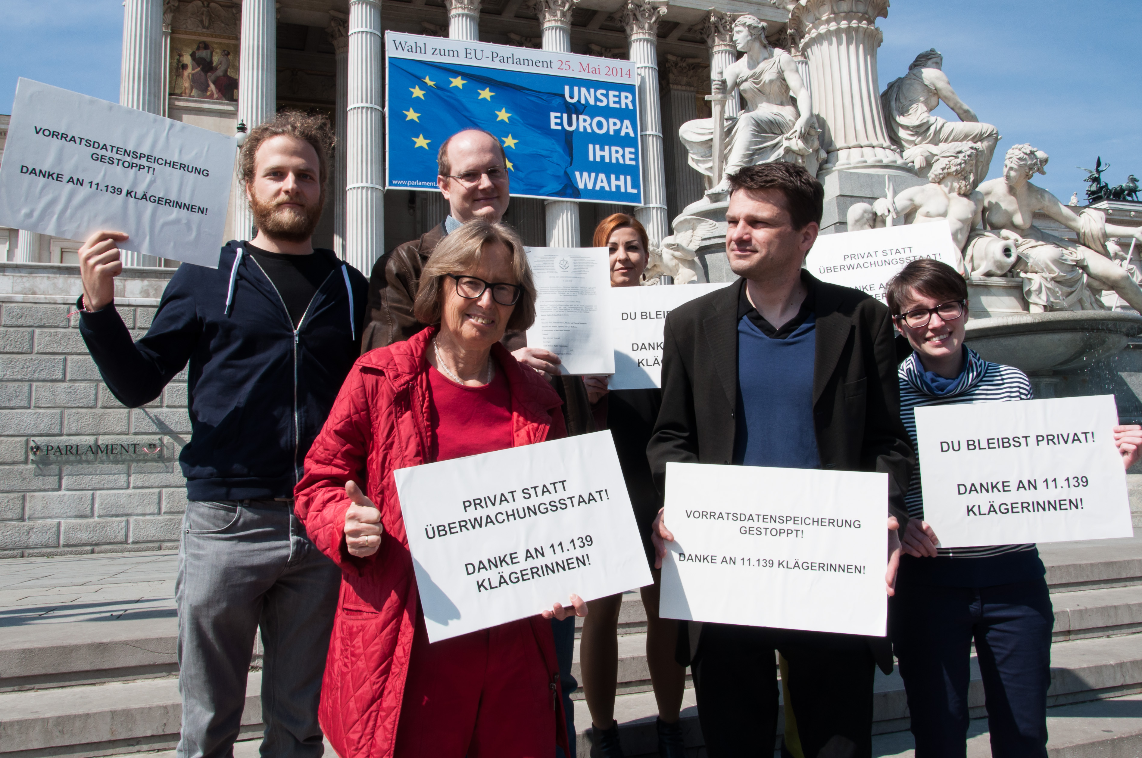 Gabriela Moser, Sigrid Maurer, Albert Steinhauser in front of the Austrian parliament building.